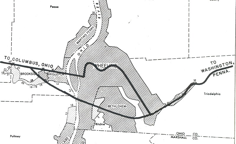 A map of planned Interstate Highway System in the Wheeling, West Virginia area. Interstates in today's terms: Interstate 70 (top) Interstate 470 (Ohio – West Virginia) (bottom) This is a retouched picture, which means that it has been digitally altered from its original version. Modifications: Cropped image. The original can be viewed here: Wheeling, West Virginia 1955 Yellow Book.jpg. Modifications made by Admrboltz.